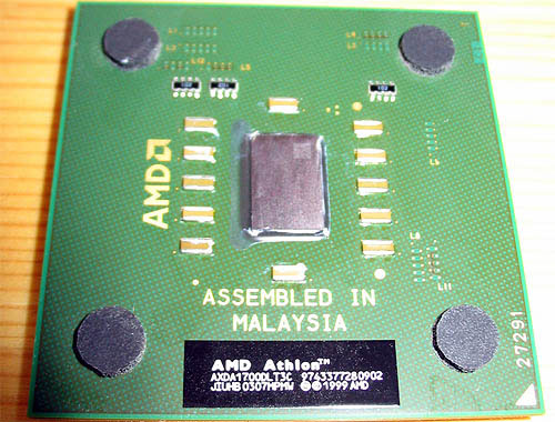 AMD Athlon XP 1700+ "Thoroughbred B"